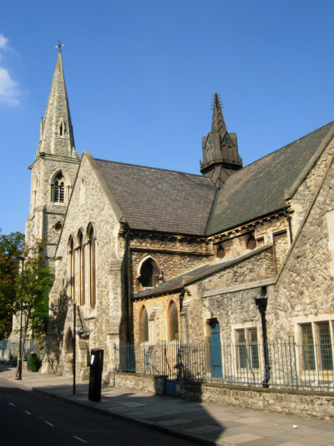 Parish church of St Mark with St Anne, Tollington Park, London N4, seen from Moray Road